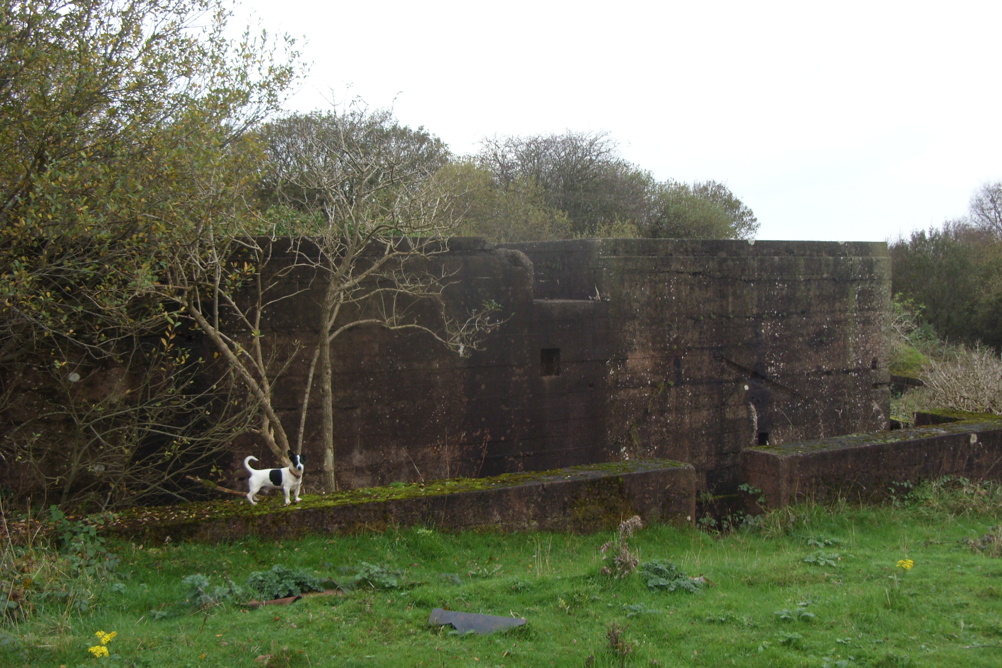 Engine bed at Violet Pit. This concrete base supported the Hathorn Davey engine previously used at Yarlside.